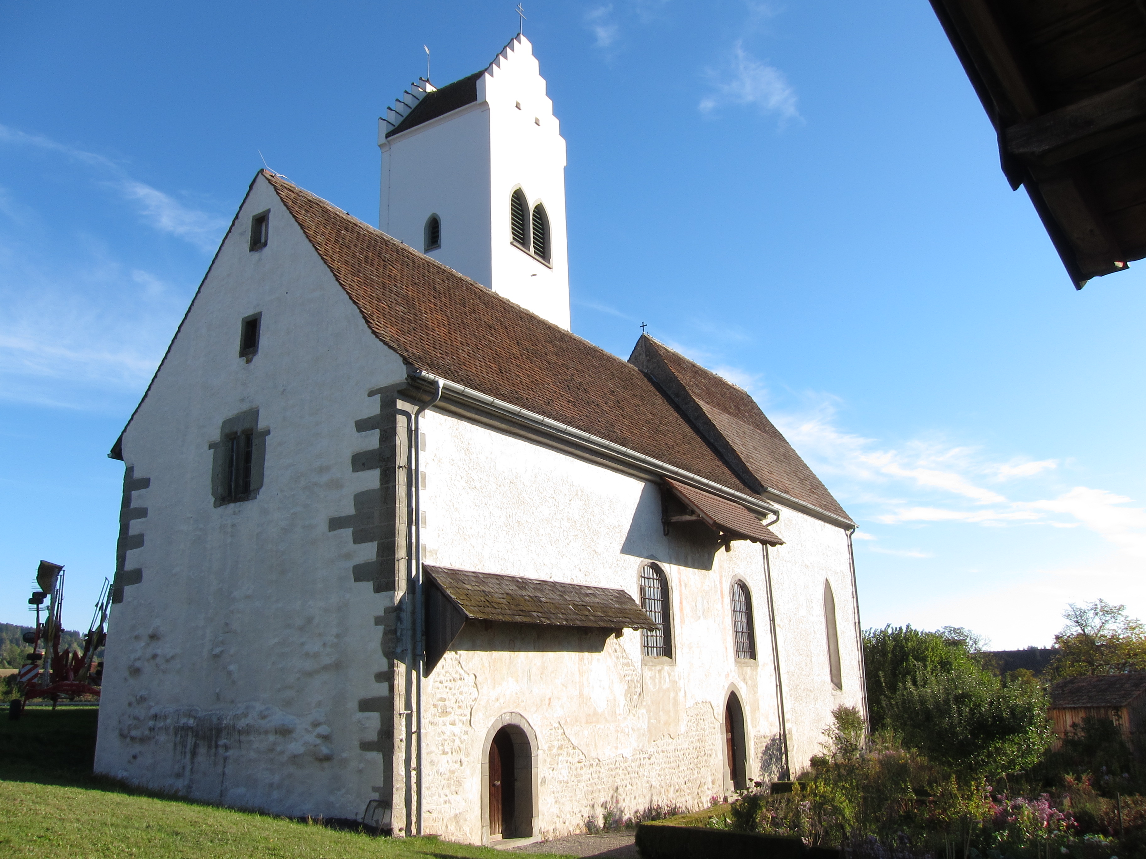 Old Church_"Überlingen-Aufkirch"_view-from-west